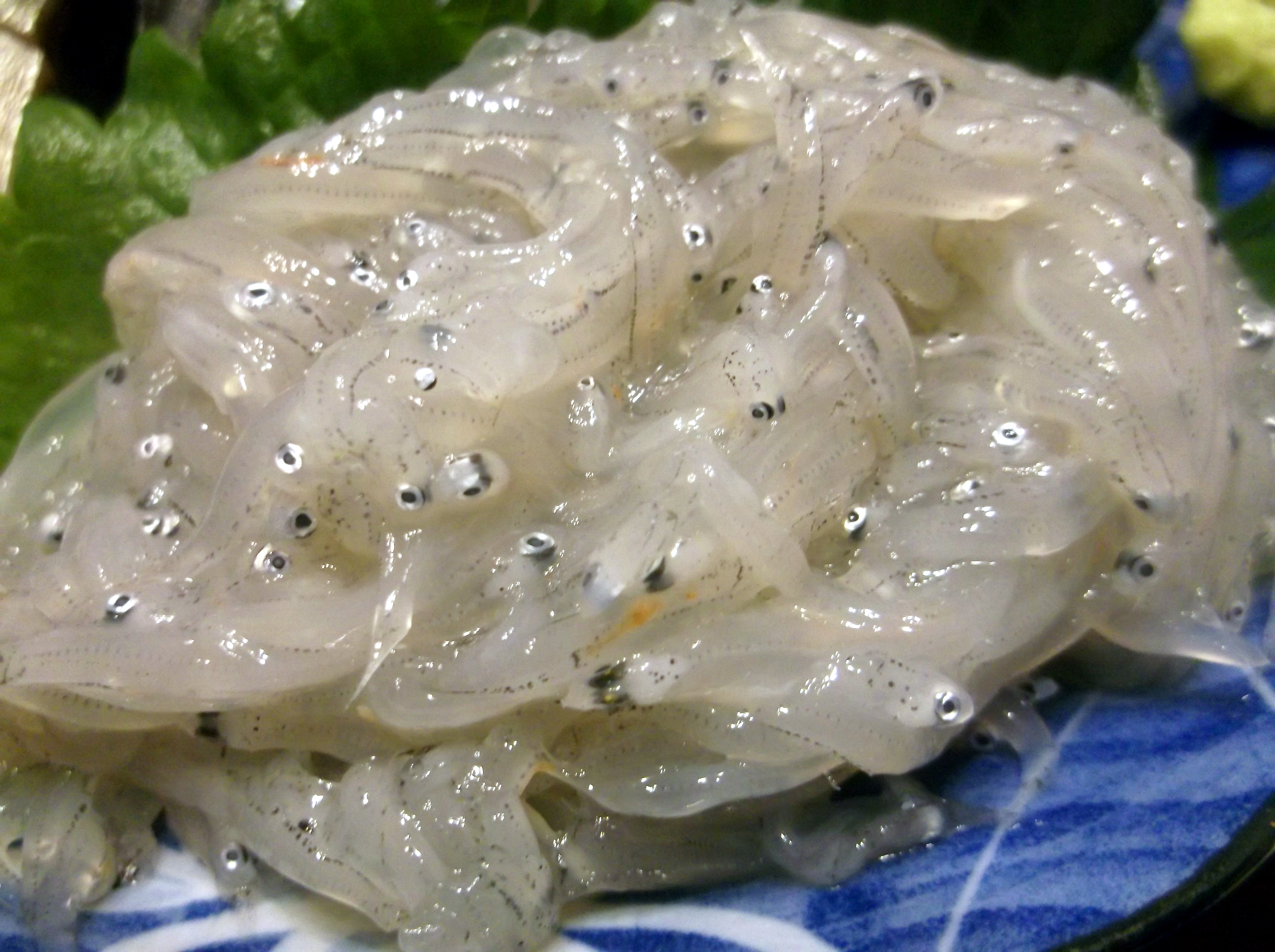 A photo of sashimi of Japanese raw whitebait (Shirasu)